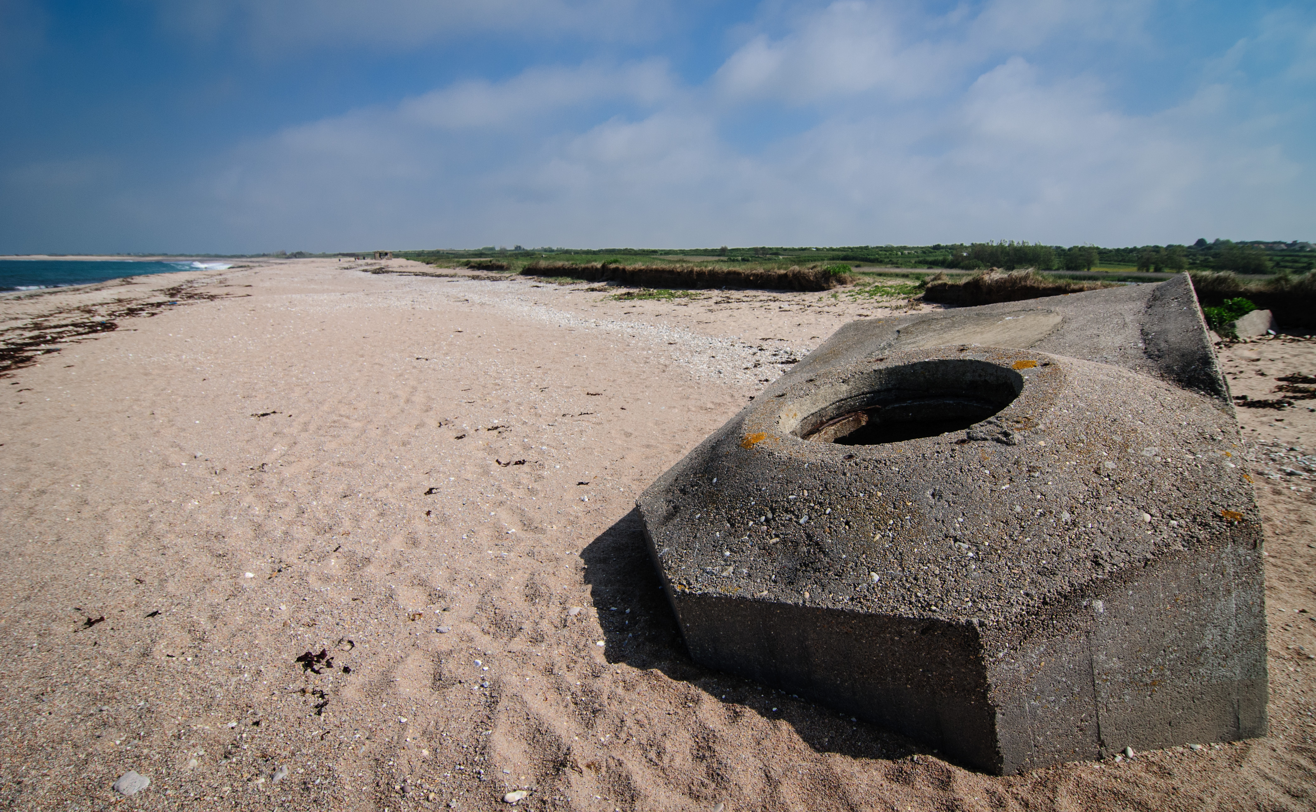 Wn127, Rethoville. Tokina AT-X Pro SD 12-24mm F4 (IF) DX